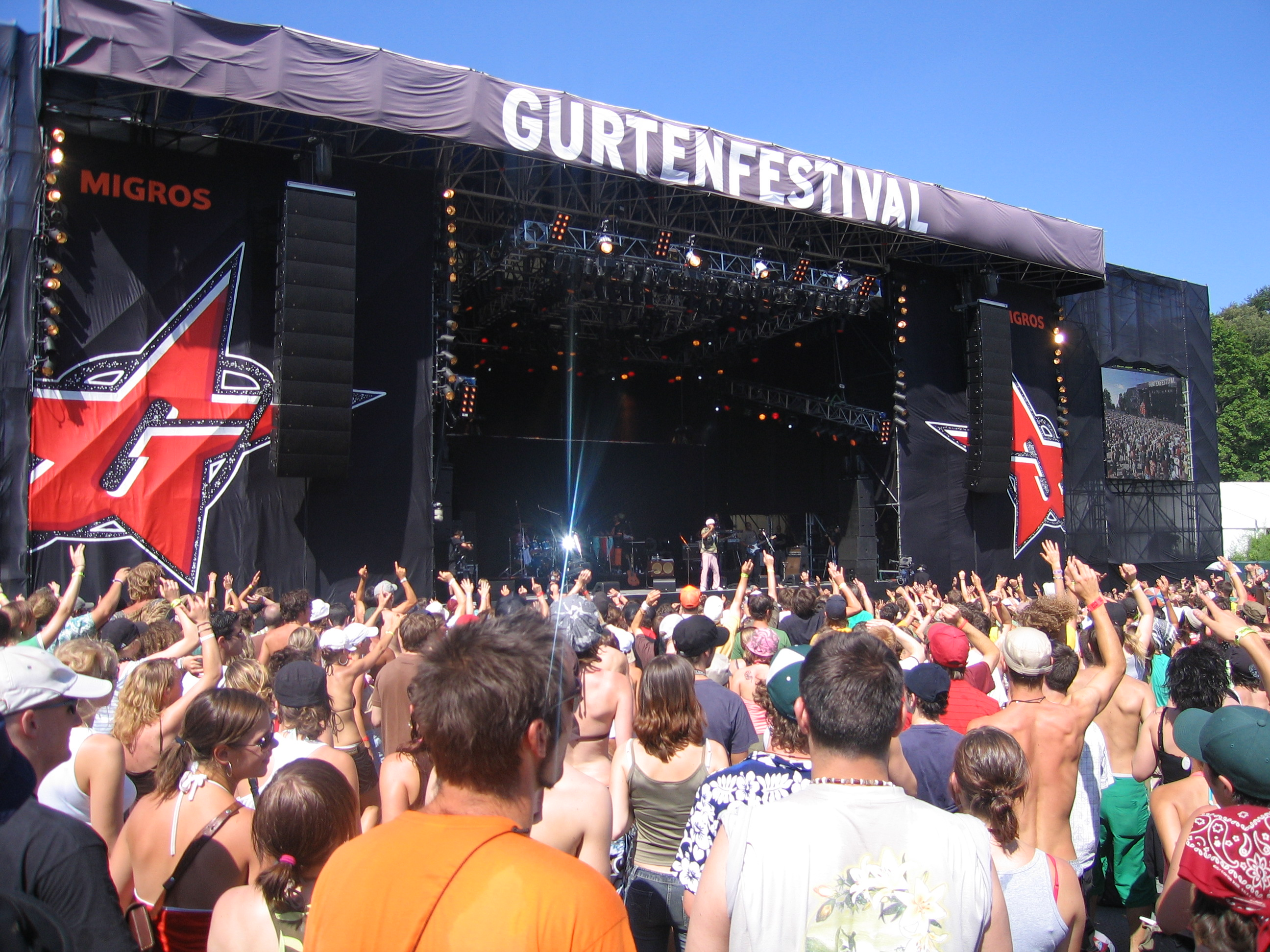 Gurtenfestival Main Stage 2005